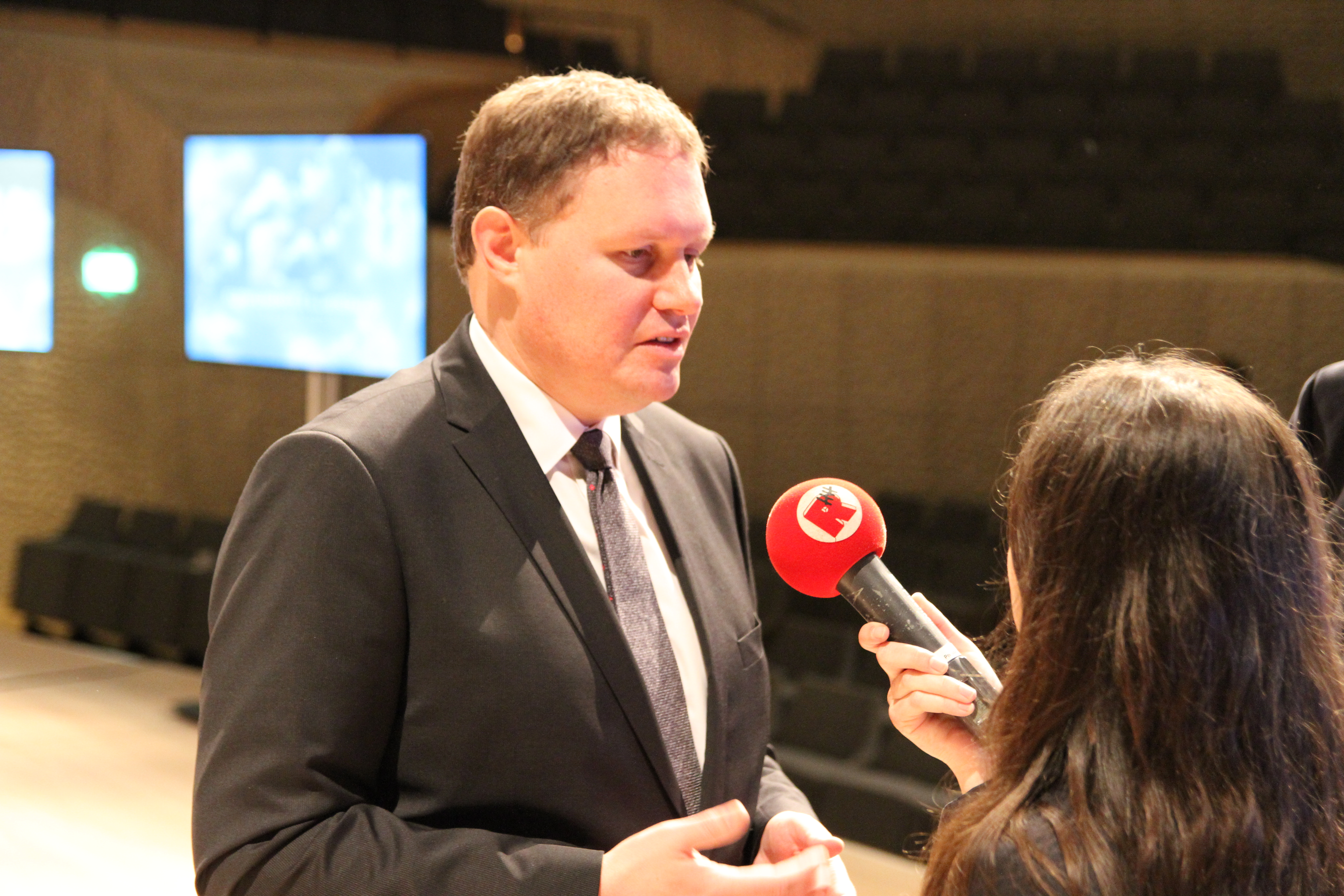 Carsten Brosda (SPD), State Minister in the Senate Scholz II and Senate Tschentscher I